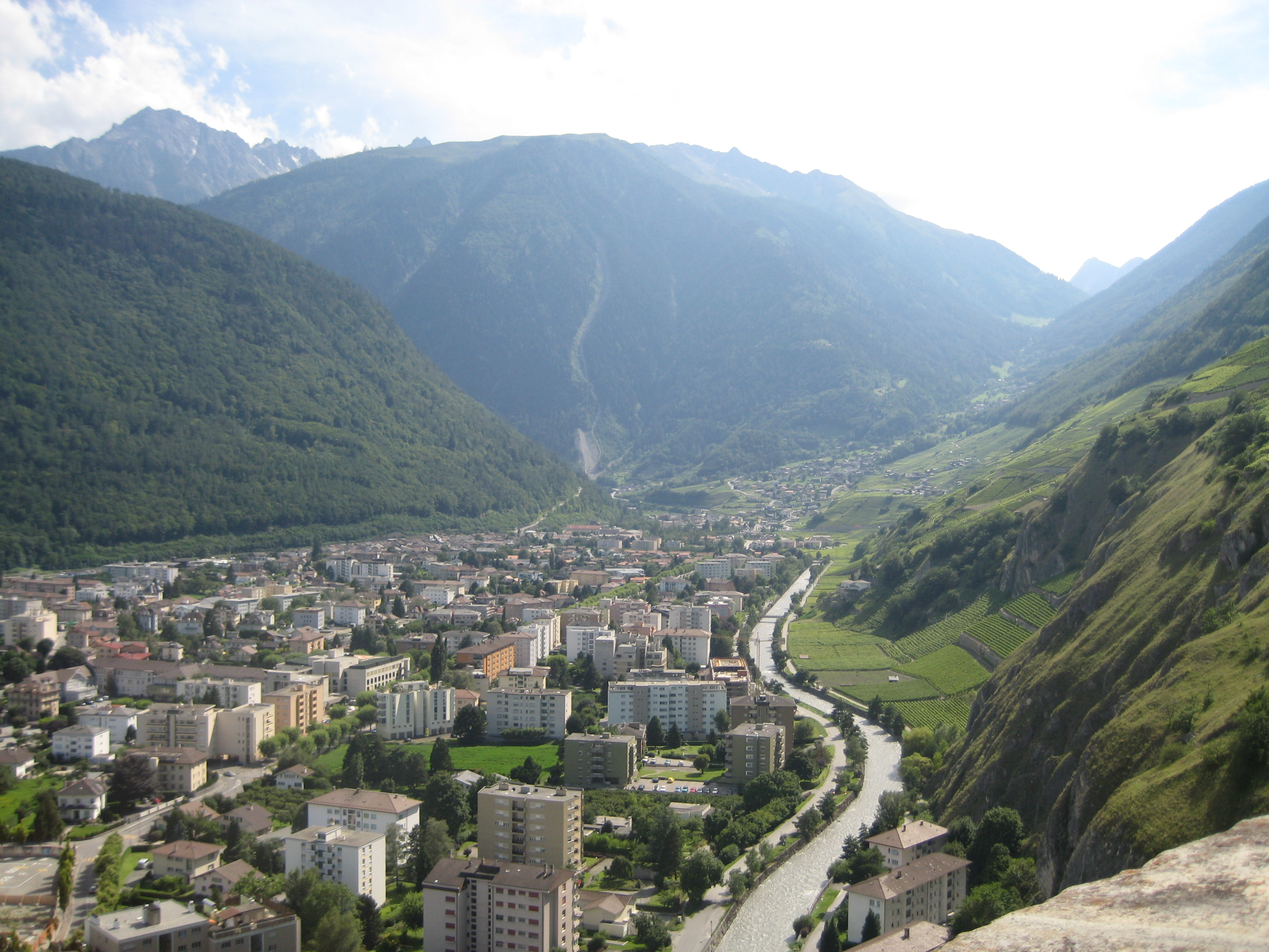 View of Martigny (Valais, Switzerland) and the Dranse river from the tower of La Bâtiaz